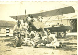 Italian soldiers in front of a bi-plane